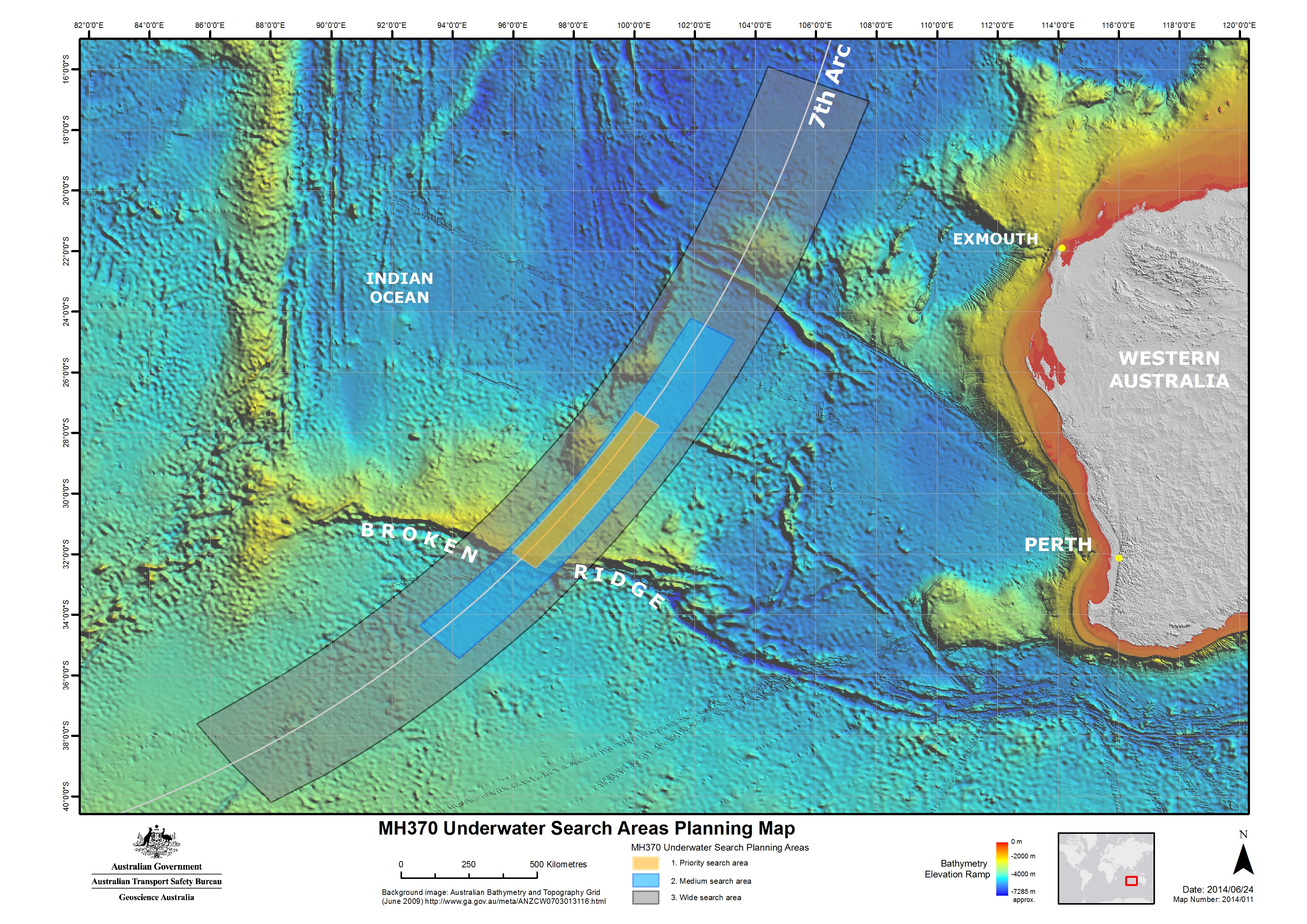 Map of the region to be searched for Malaysia Airlines Flight 370 announced 26 June 2014. The searching of this region is expected to begin in August 2014 and take up to 12 months to complete. Note on the background image some tracks of higher resolution bathymetric data, which had been obtained from soundings by passing ships.